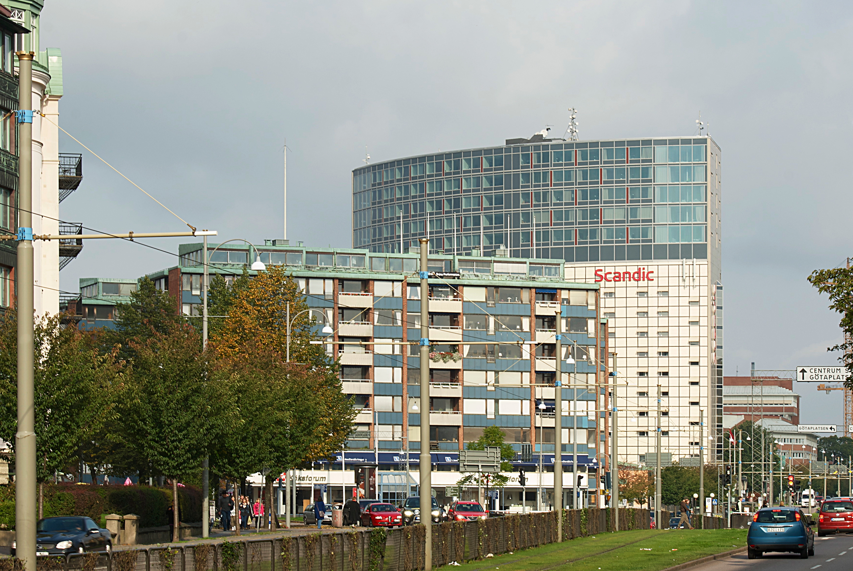 Skånegatan (Scania street) and hotell Opalen.